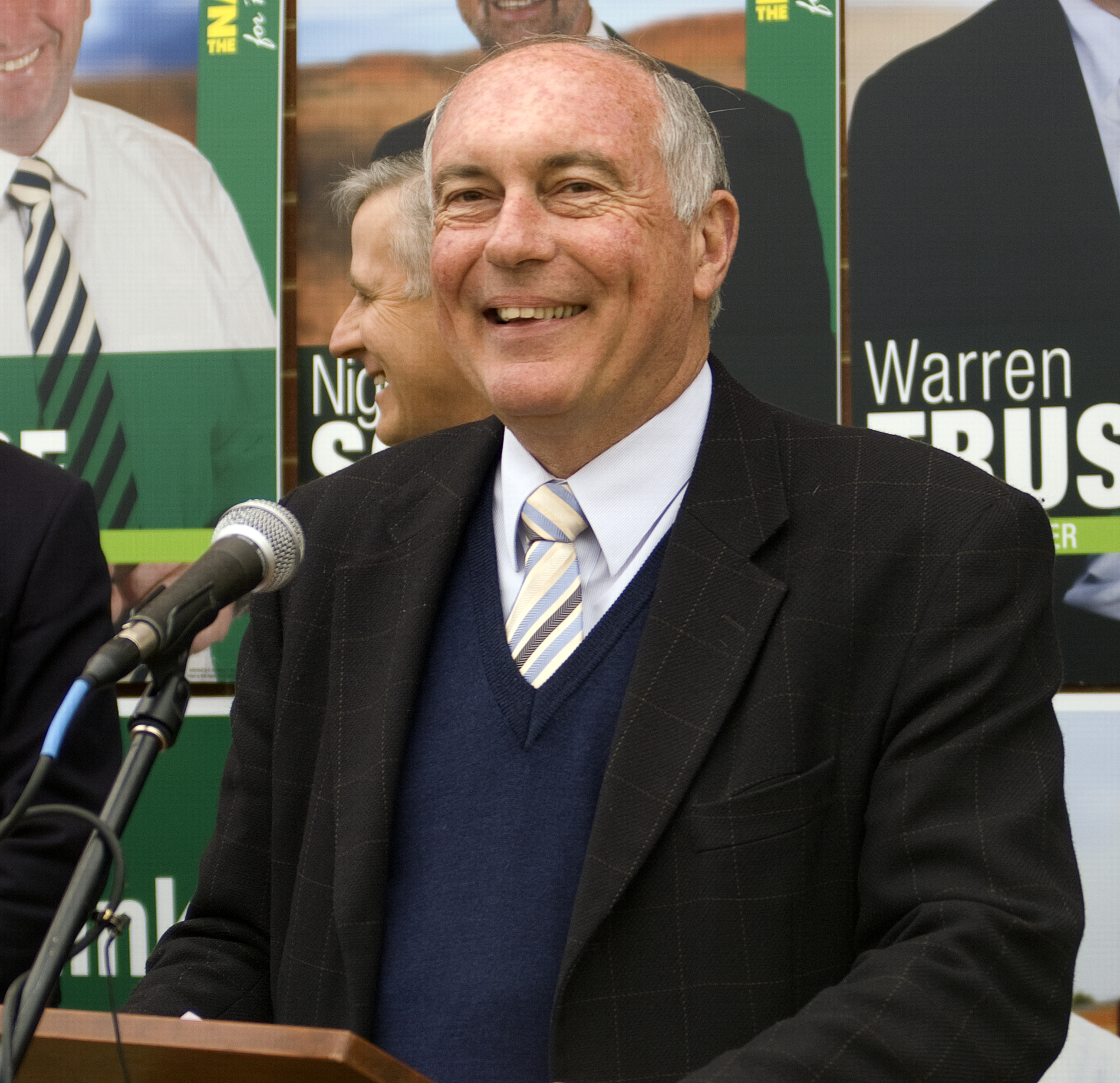 Warren Truss at a National Party candidate campaign launch.